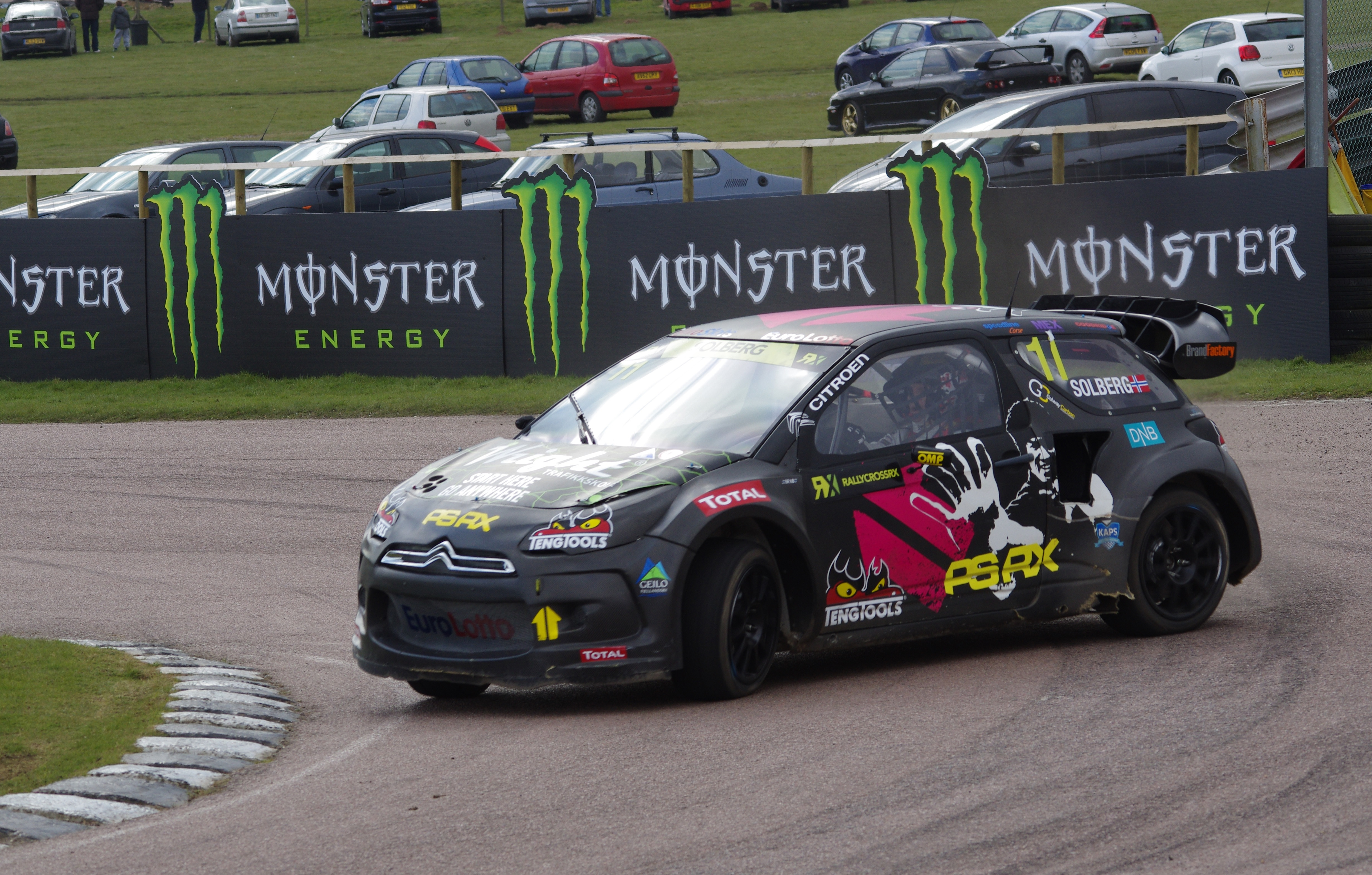 European Rallycross 2013, first round, Lydden Hill, 30th March 2013.